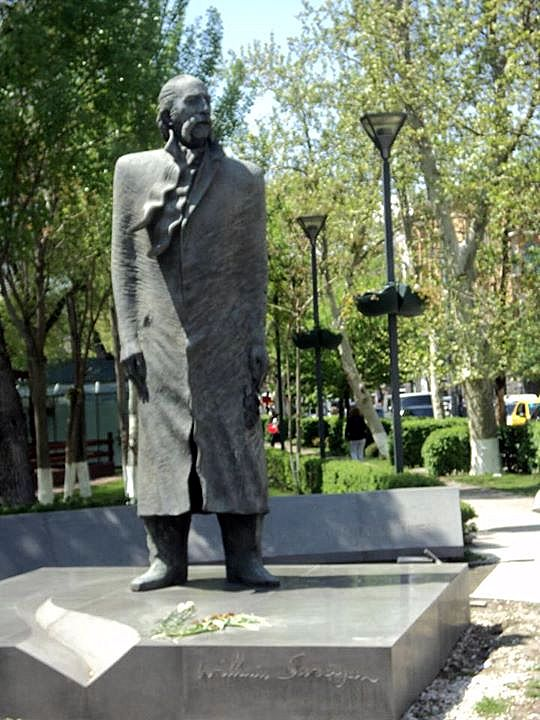 Վիլյամ Սարոյան-բրոնզ, հեղինակ`Դավիթ Երևանցին, ճարտարապետներ՝ Ռուբեն Հասրաթյան, Լևոն Իգիթյան։ Գտնվում է Մաշտոցի պողոտա-Մոսկովյան փողոցների խաչմեչուկներում